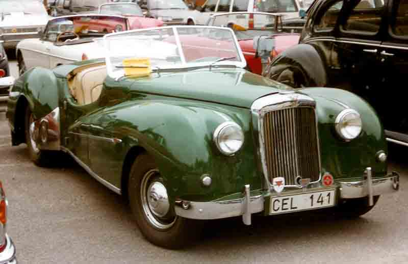 Alvis TB 21 Sports Roadster 1952